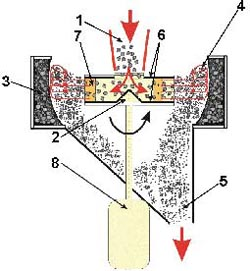 A principal scheme of a vertical shaft impact crusher with air-cushion support